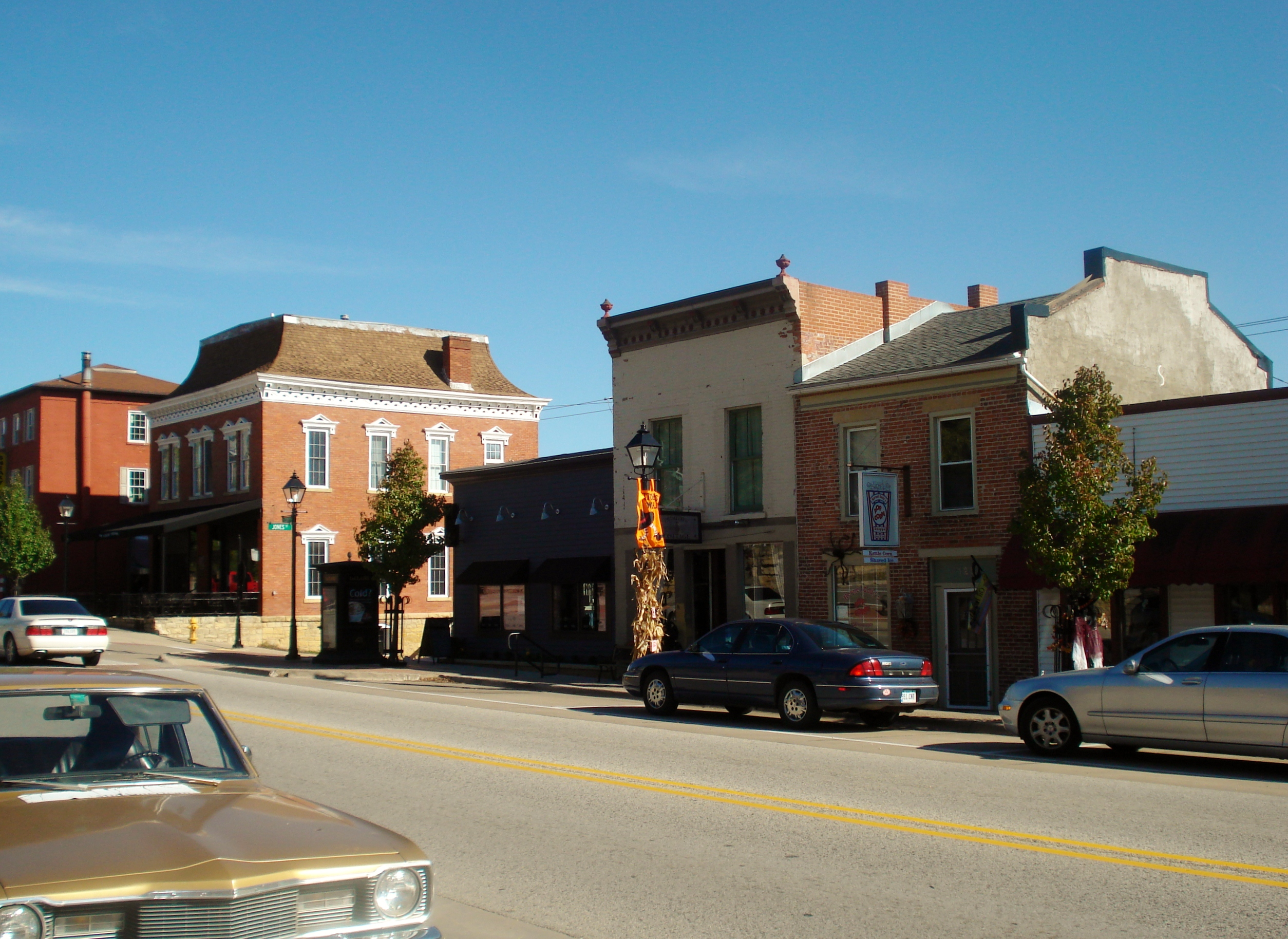 East side of Cody Road, Le Claire, Iowa.